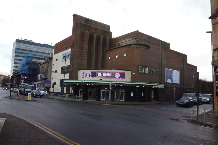 NEON (Newport Entertains Our Nation), previously known as Newport City Live Arena and Odeon Cinema (until 1981) in Clarence Place, Newport, South Wales